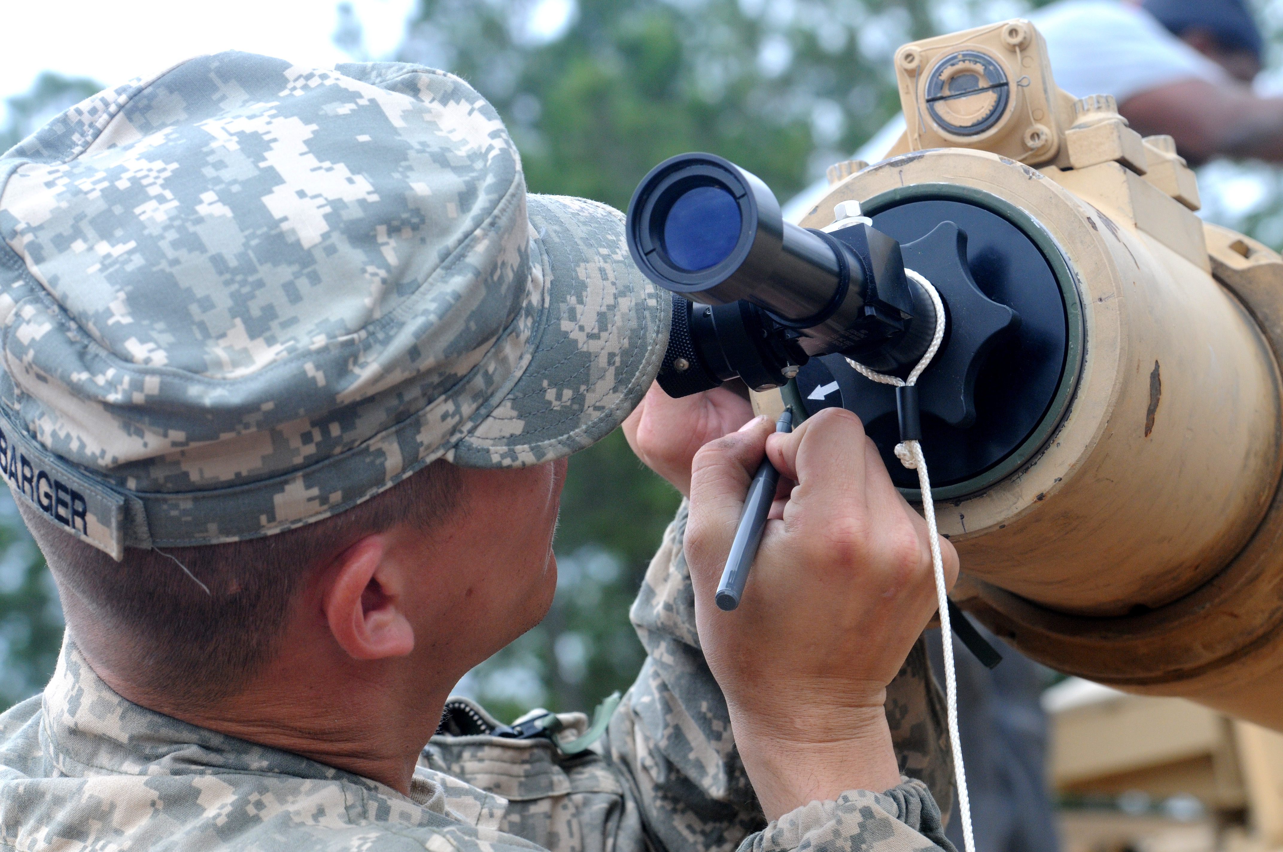 Sgt. 1st Class Marc Westenbarger, tank commander, C Company, 1st Battalion, 77th Armor Regiment, 4th Brigade Combat Team, 1st Armored Division, uses a muzzle boresight to zero his crew’s Abrams 120mm cannon May 10 prior to a night live-fire event during the Sullivan Cup precision tank gunnery competition at Fort Benning, Ga. Boresighting the cannon ensures that the tank’s computer-based aiming system is properly aligned with the cannon itself, providing crew members with accurate round placement.